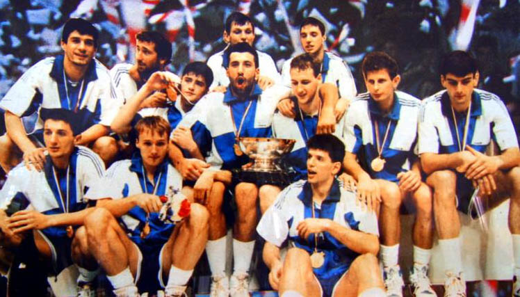 The Yugoslavia national basketball team that won the 1989 FIBA EuroBasket held in Yugoslavia.